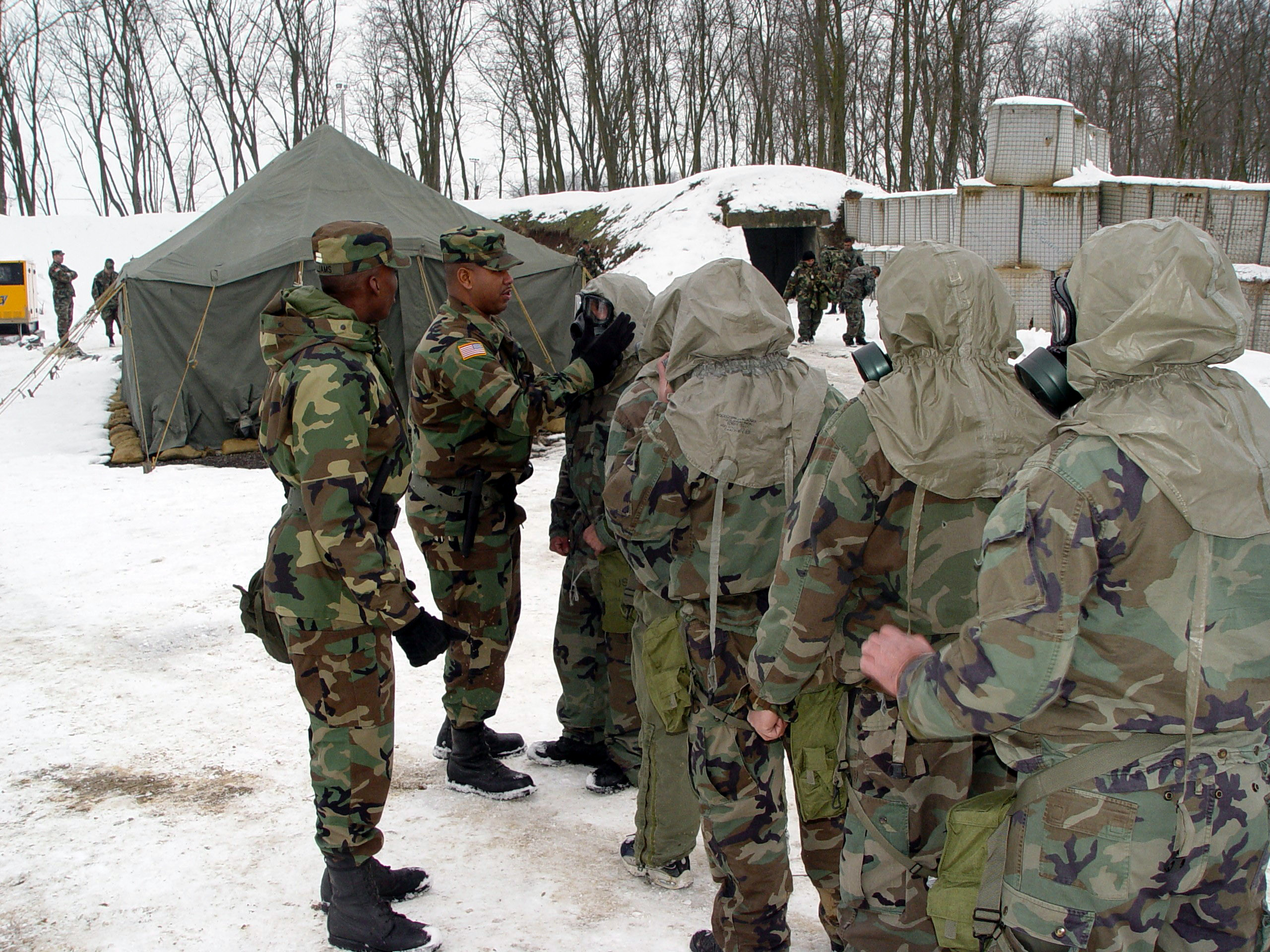 U.S. Army Staff Sgt. James Williams (left) watches as Staff Sgt. Caul Debose (center) checks the seal of a protective mask for a Free Iraqi Forces volunteer during training at Taszar Air Base, Hungary, on March 10, 2003. Soldiers from 31 units across the U.S. Army are training Iraqi opposition volunteers, provided by the Iraqi Opposition Groups, on developing skills in civil military operations to assist coalition forces in coordinating humanitarian relief efforts and other civil support functions. Williams and Debose are drill sergeants with the Army's 1st Battalion, 61st Infantry, Fort Jackson, S.C.